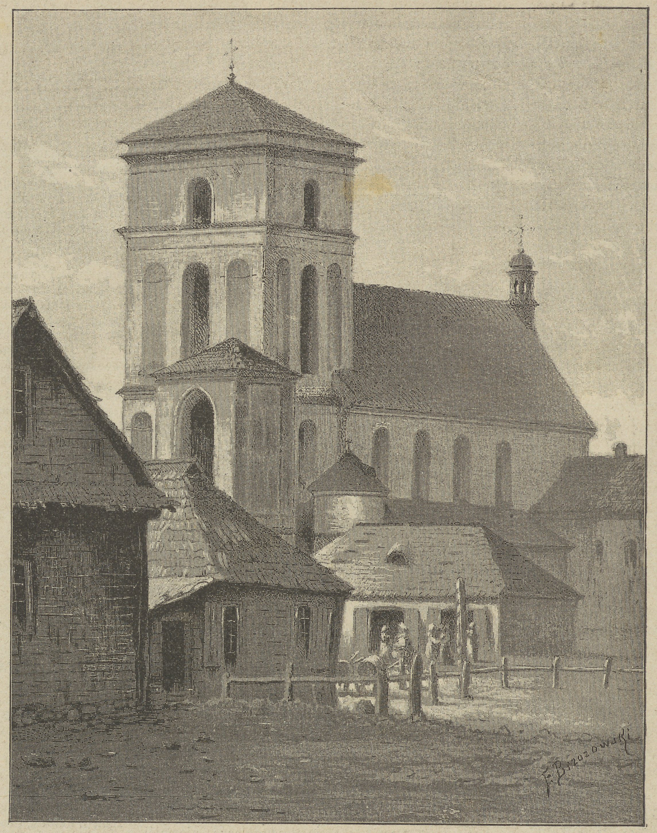 Catholic Church in Mir